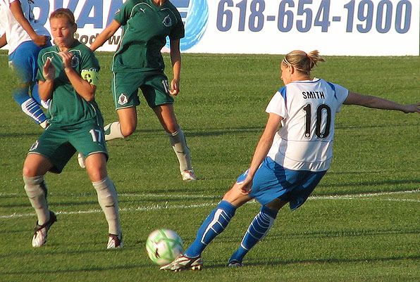 Kelly Smith of the Boston Breakers